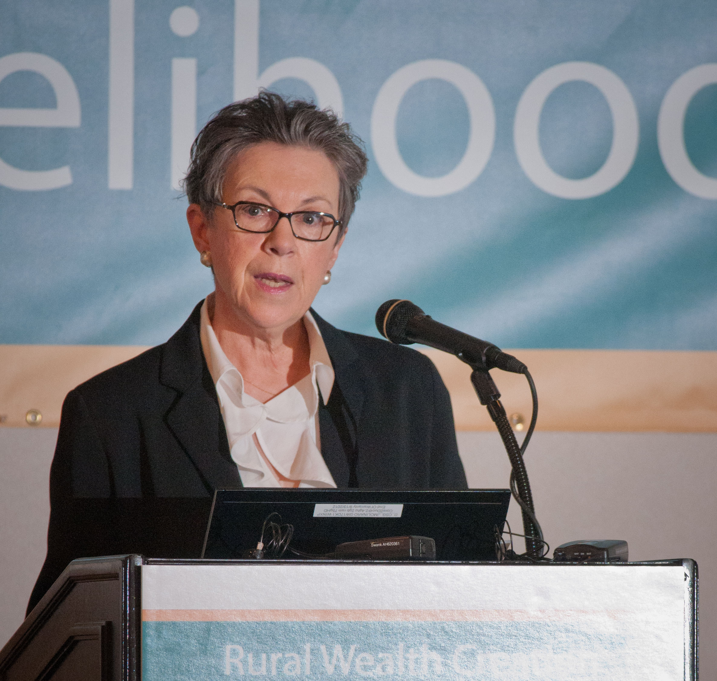 U.S. Department of Agriculture (USDA) Under Secretary for Research, Education and Economics, Dr. Catherine Woteki provided opening remarks for the Rural Wealth Creation and Livelihoods national conference for practitioners, researchers and policymakers, held at the Dupont Hotel, Washington DC, on Monday October 3, 2011. USDA partnered with the Ford Foundation to sponsor the conference. USDA Photo by Lance Cheung.